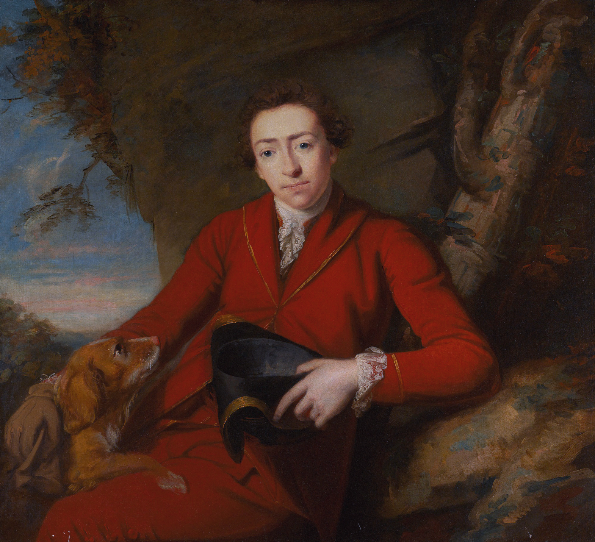 John Lade, 2nd Bt. (1759–1838) with his dog oil on canvas 90 x 99 cm